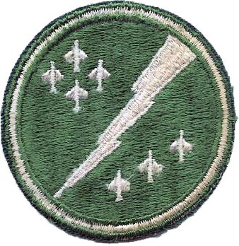 Emblem of the 7th Tactical Reconnaissance Squadron